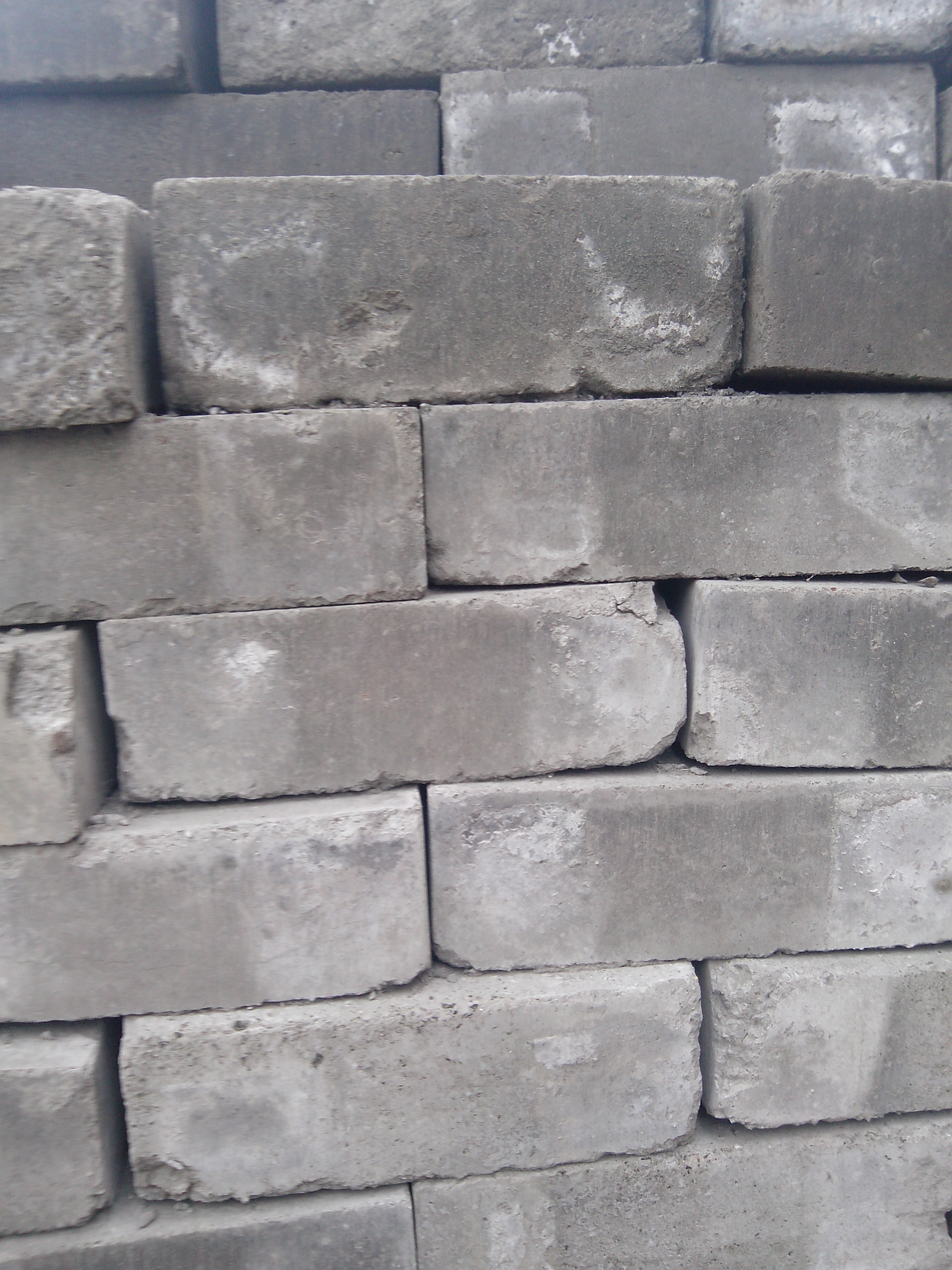 Fly ash bricks (Tamil Nadu, India)